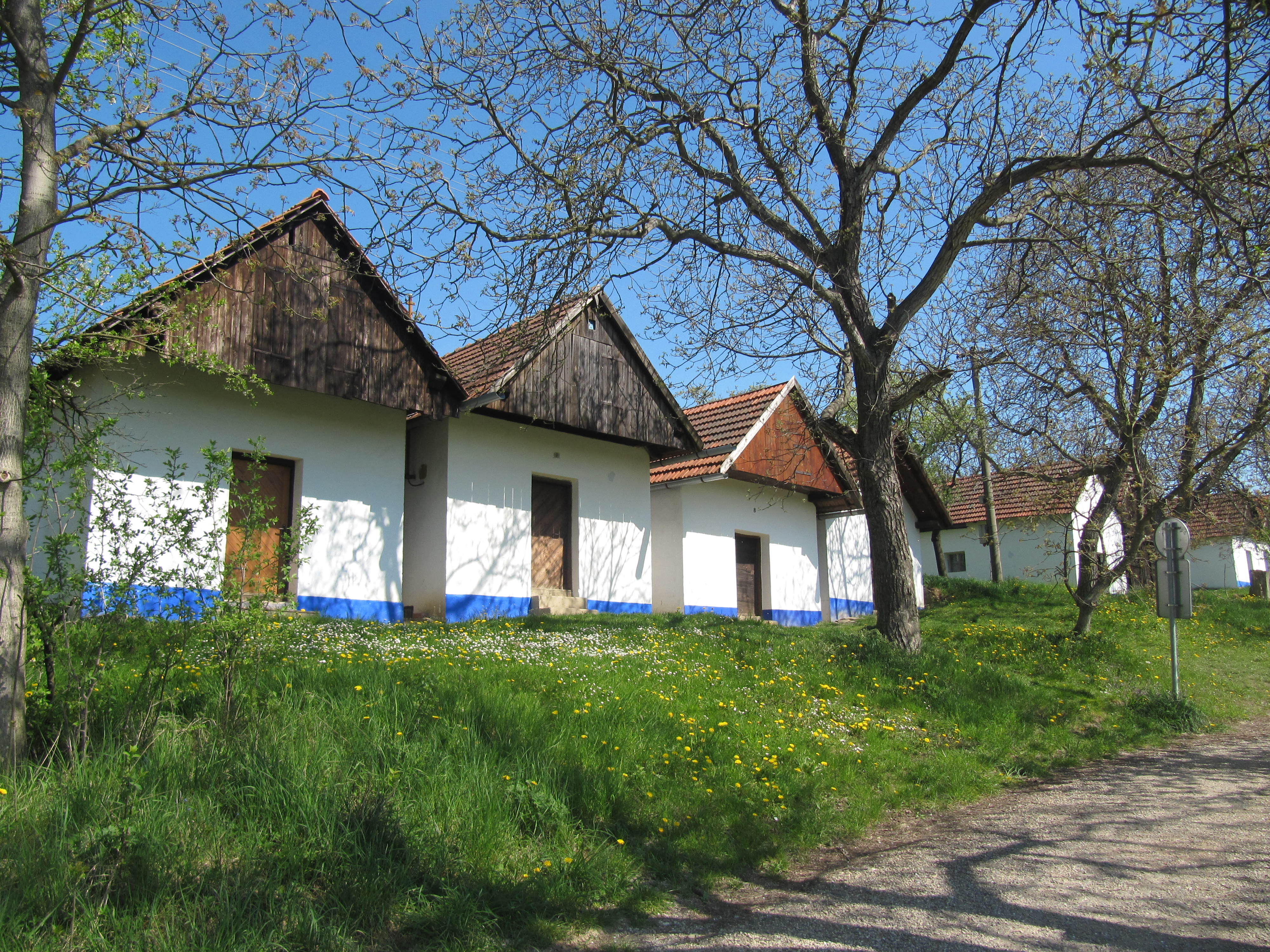 Vlčnov in Uherské Hradiště District, Czech Republic. Vlčnovské búdy (Winecellars of Vlčnov), village monument reserve.